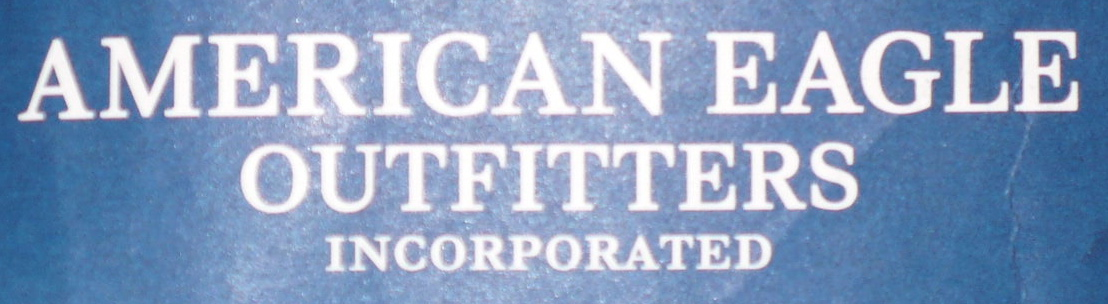 Logo of American Eagle Outfitters Inc, based in Pennsylvania.